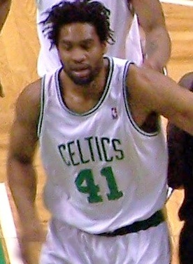 Michael Olowokandi during the final 2005-2006 regular season game of the Miami Heat in Boston.